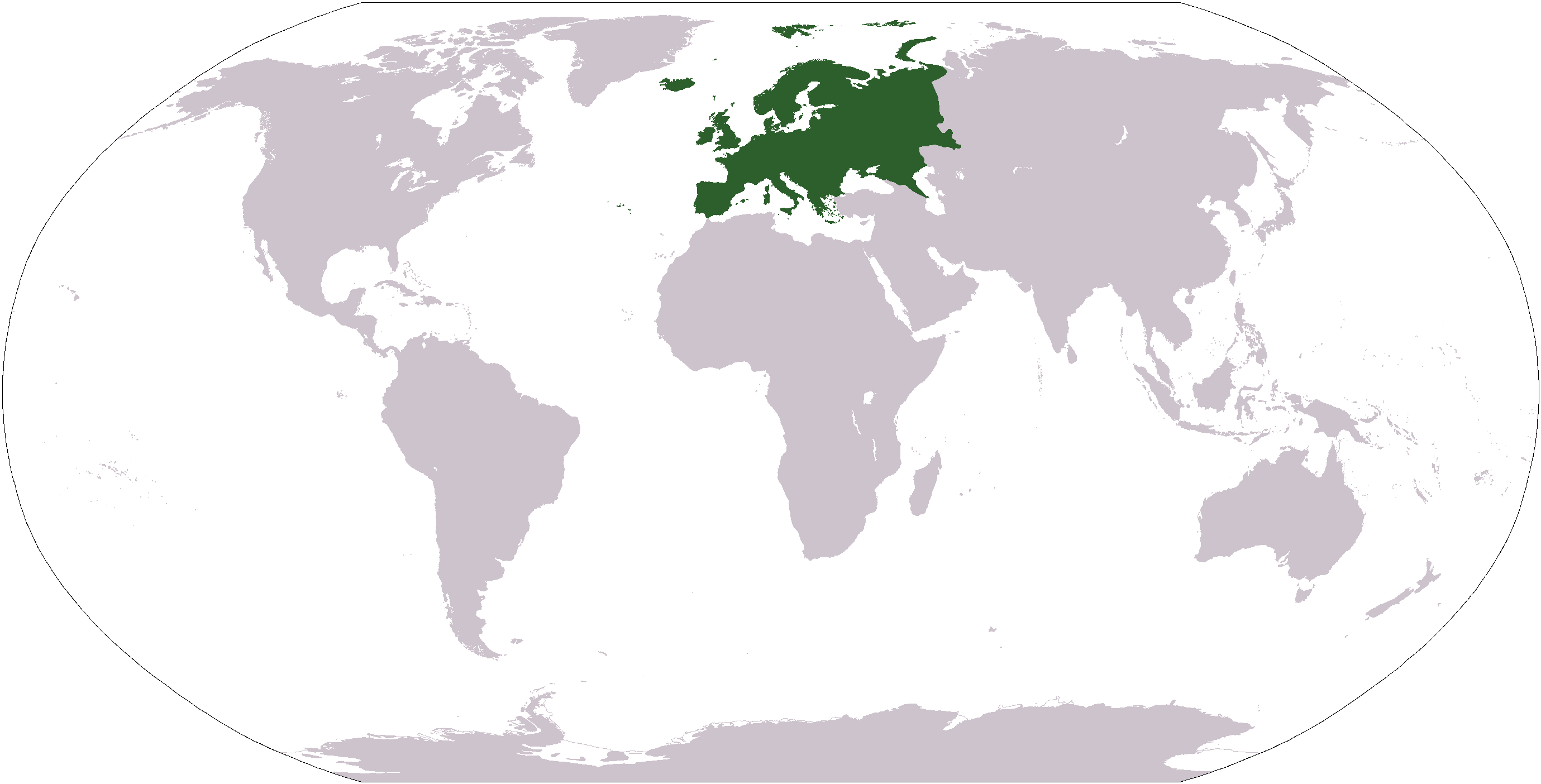 World map depicting Europe.